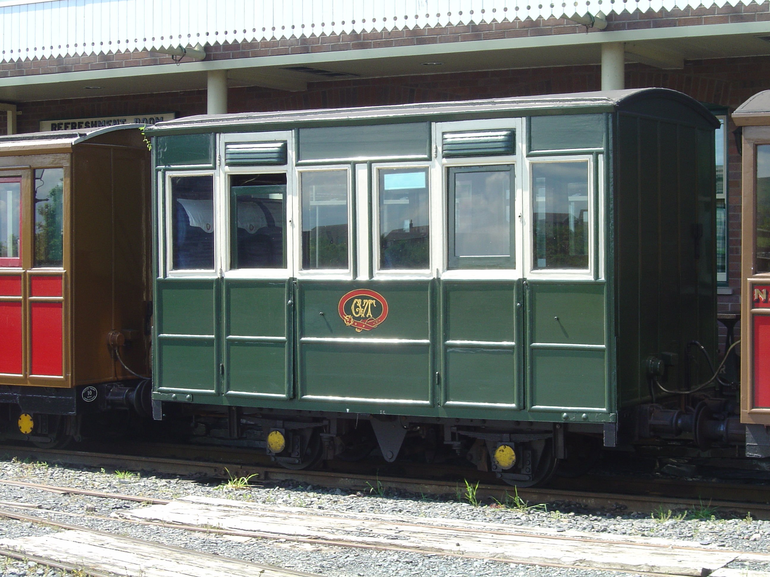 Talyllyn Railway coach number 14 (ex Glyn Valley Tramway)